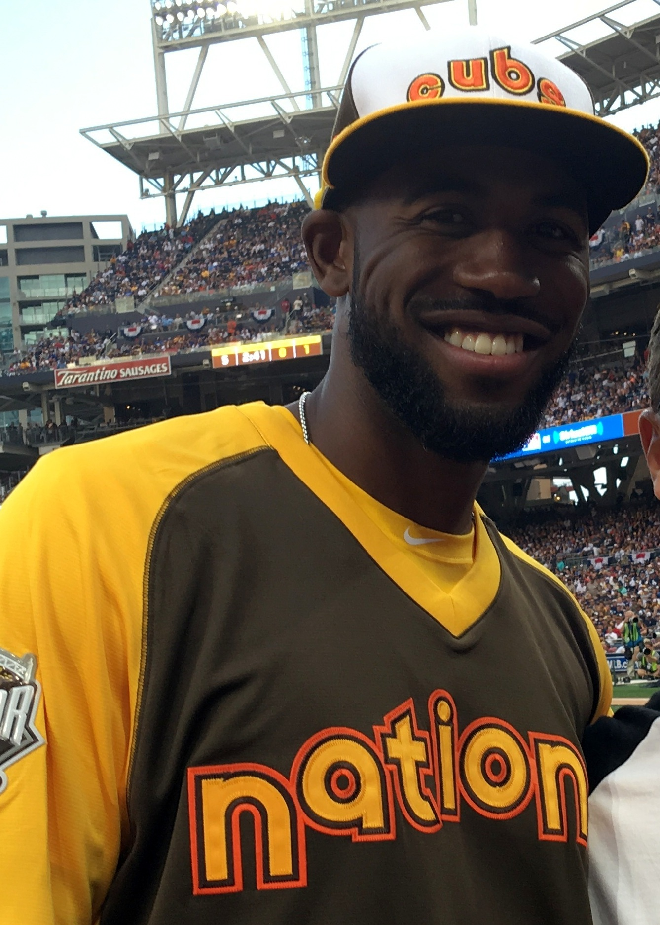 Dexter Fowler poses with T-Mobile COO Mike Sievert during the #HRDerby.